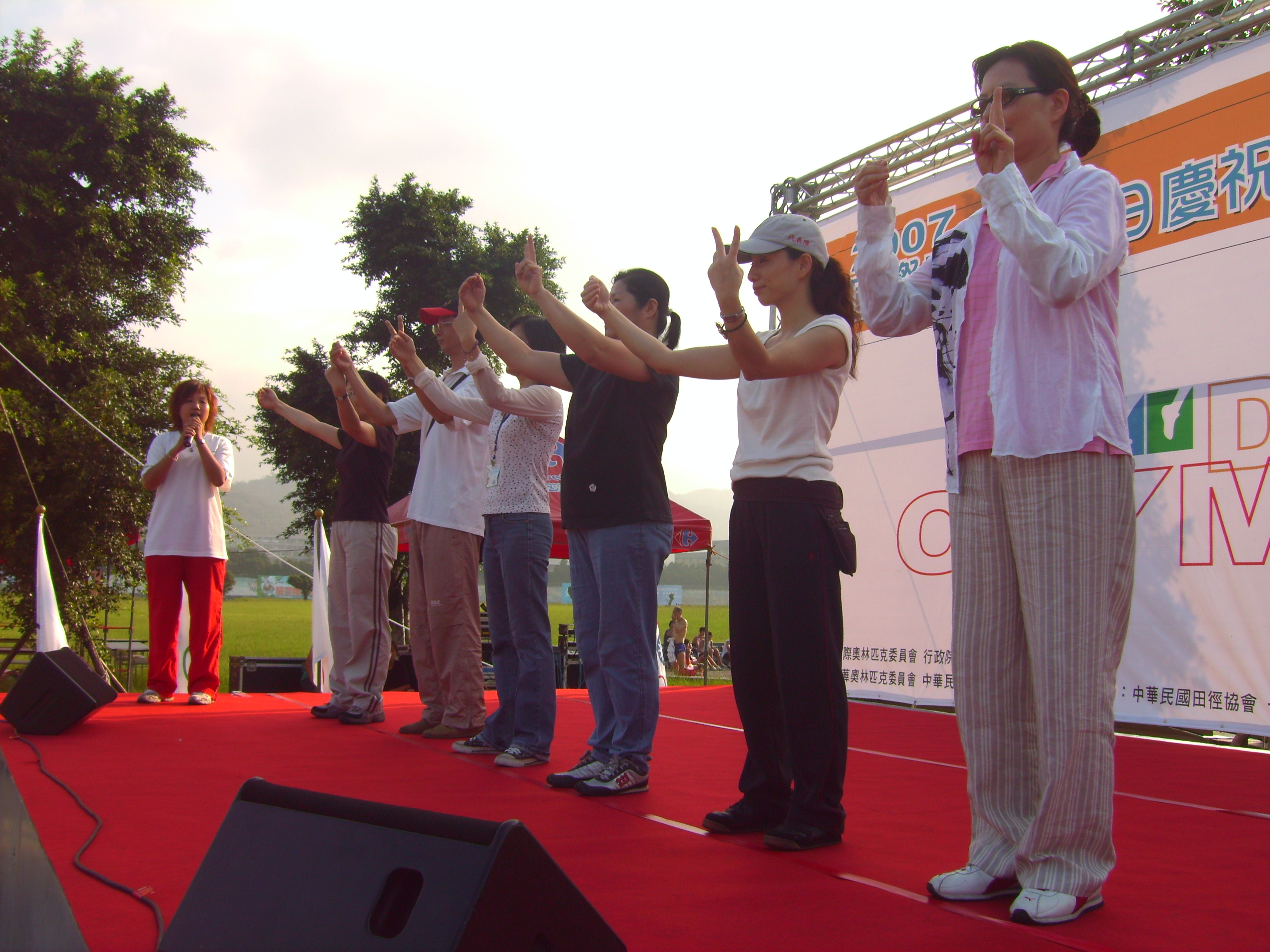 2007 Chinese Taipei Olympic Day Run in Taipei City: Deaflympics Taipei 2009 Easy Sign Language Section.